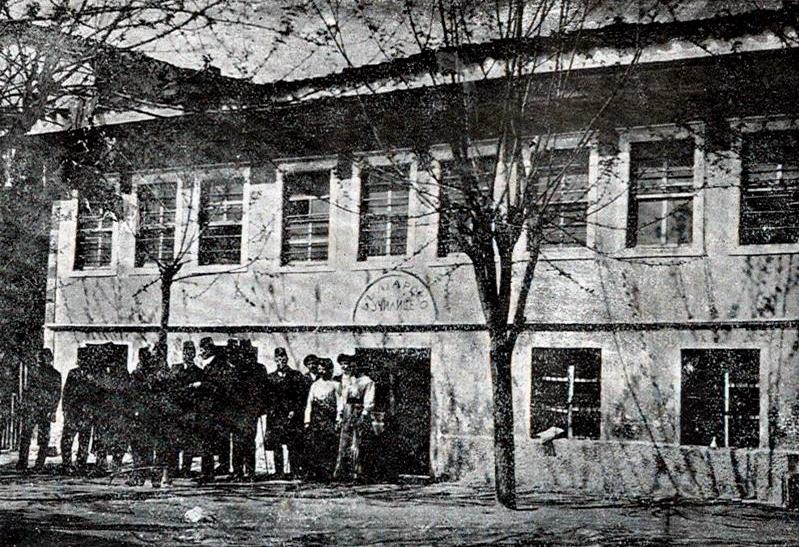 Bulgarian school in Voden/Edessa